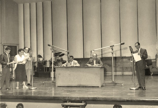 La-tremenda-corte-programa-radio. Radiocentro CMQ. Havana, Cuba